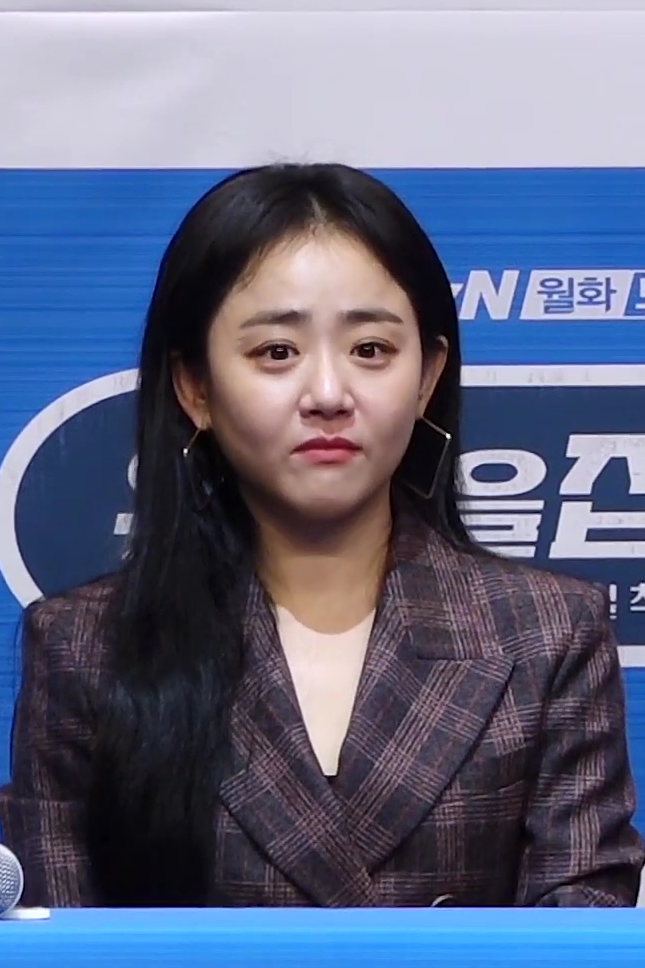 Moon Geun-young at 'Catch the Ghost' Press Conference on October 21, 2019.